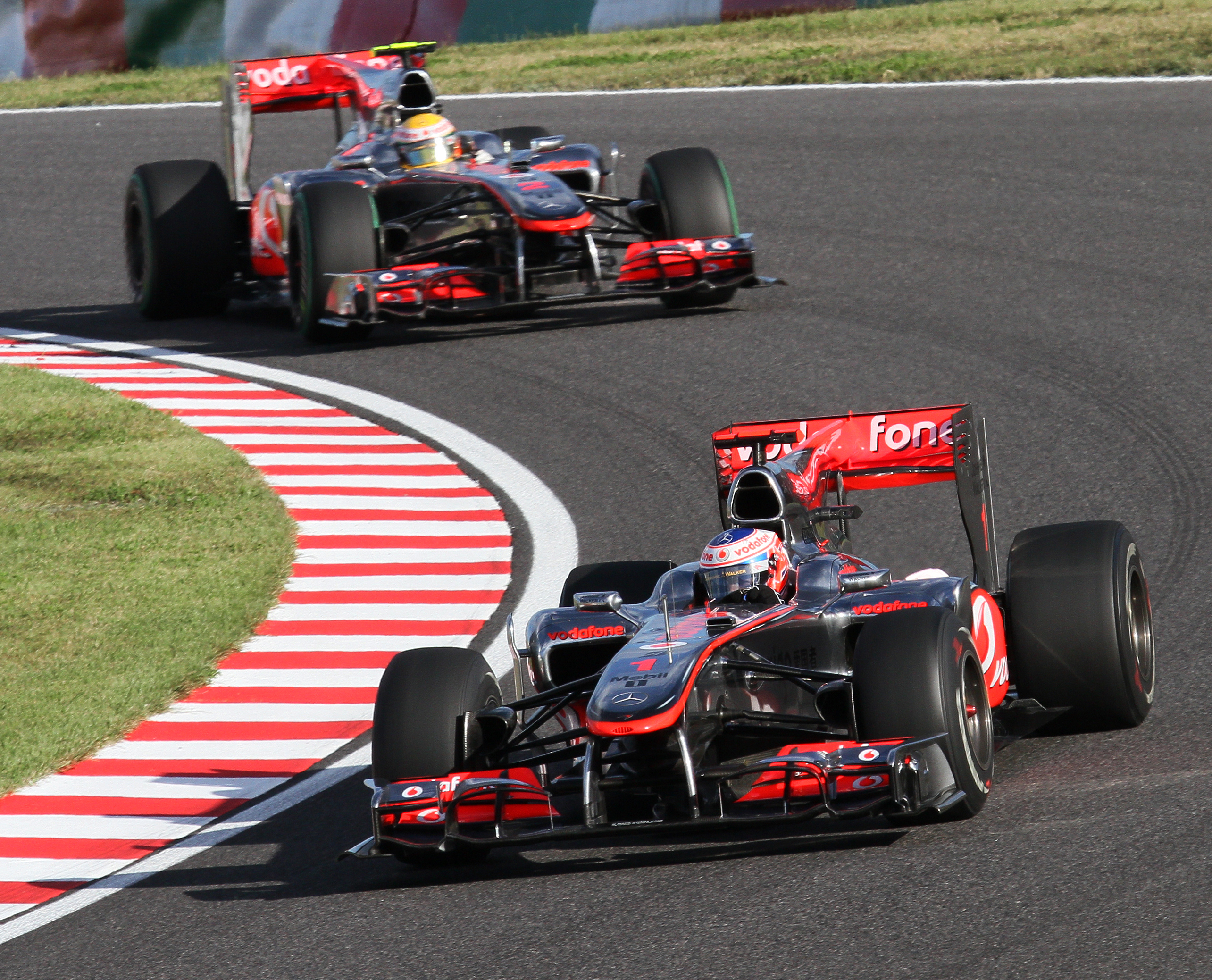 Formula One 2010 Rd.16 Japanese GP: McLaren duo (Jenson Button and Lewis Hamilton)